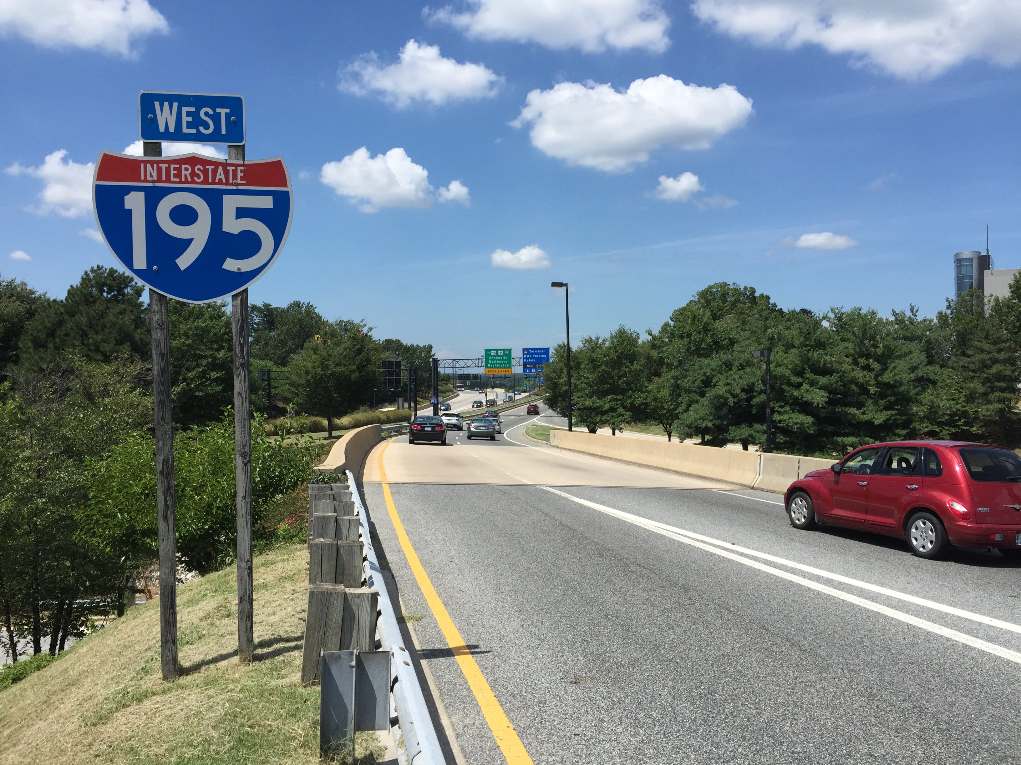 View west at the east end of Interstate 195 (Metropolitan Boulevard) at Baltimore-Washington International Thurgood Marshall Airport in Anne Arundel County, Maryland